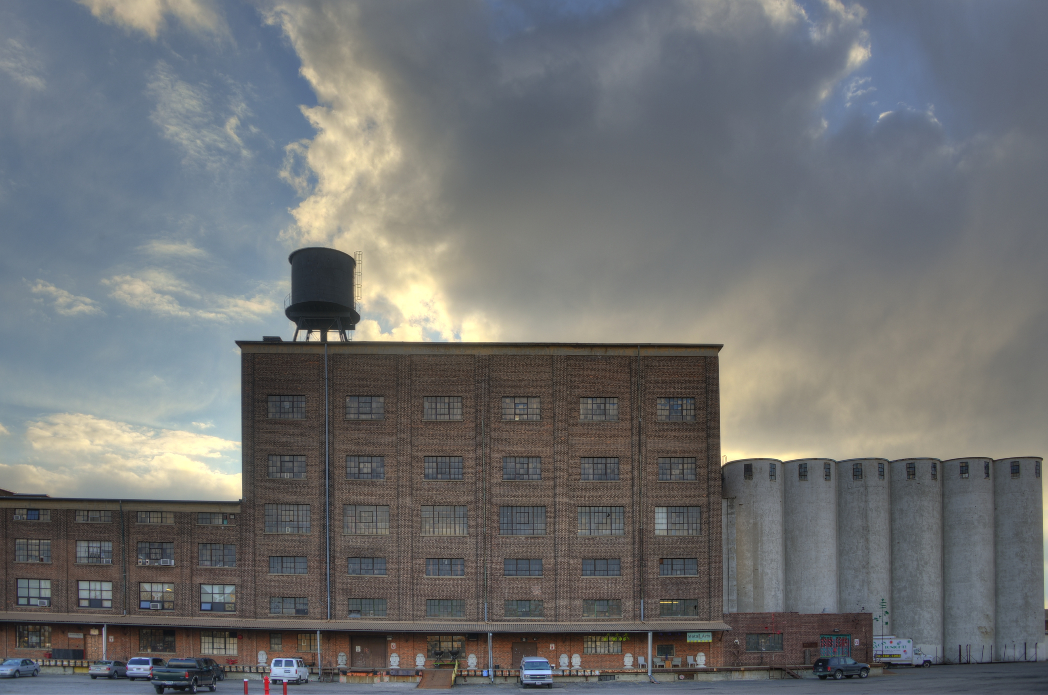 The Northrup-King building in Northeast Minneapolis, Minnesota, formerly a seed-packaging facility, now home to numerous artists' studios.